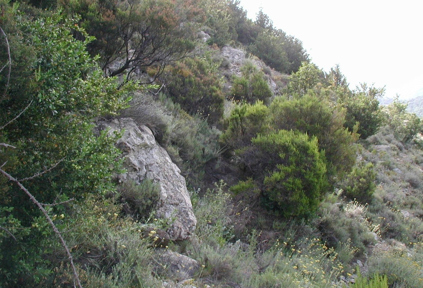 Buxus sempervirens: Habitat on Corsica.